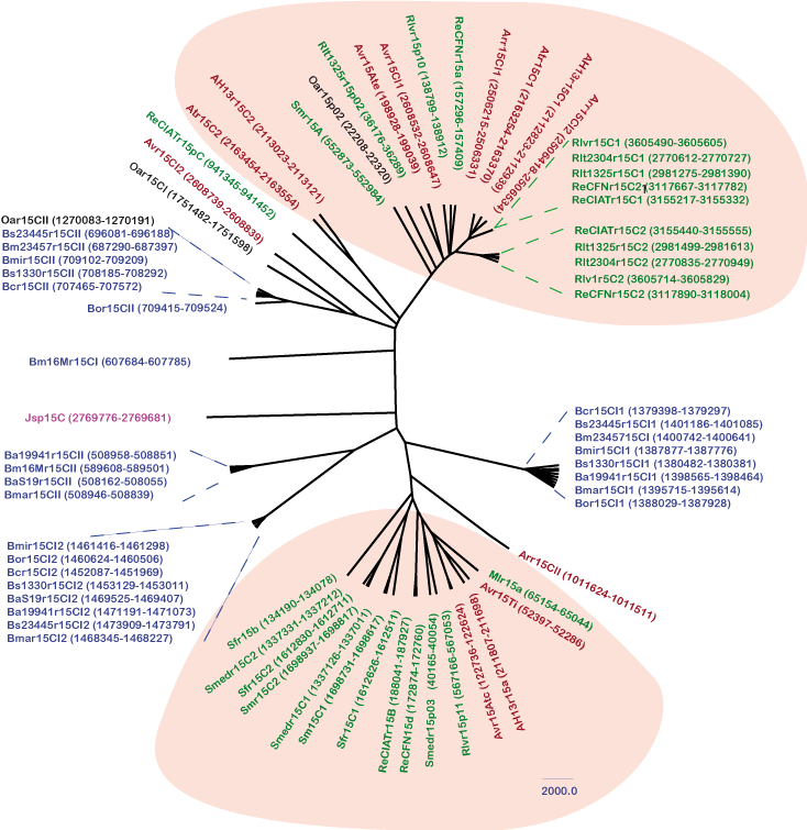 15C tree